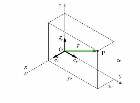 vetor